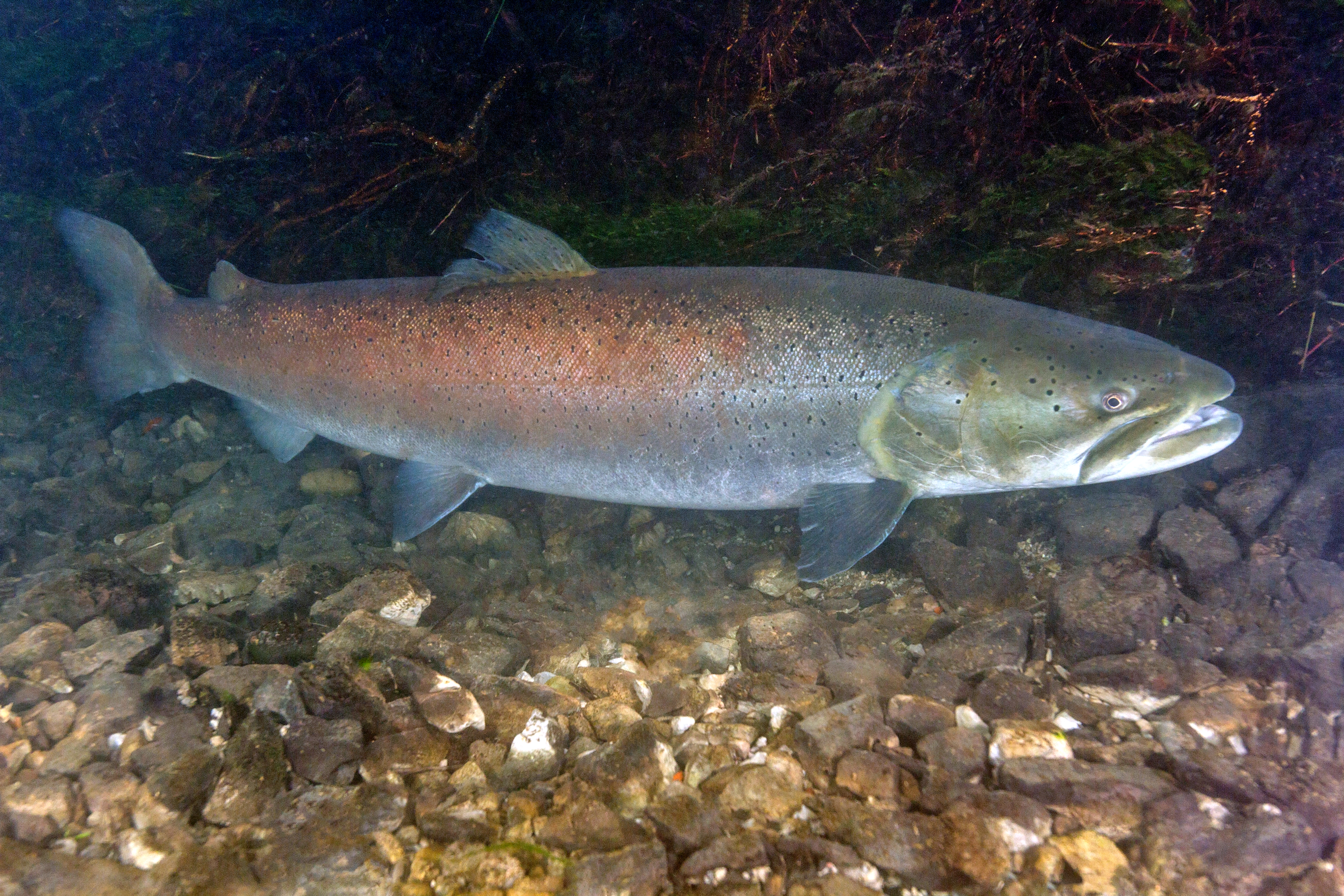 Danube Salmon - Huchen (Hucho hucho) swimming against the current underwater in the Drina river. Border between Bosnia and Serbia.